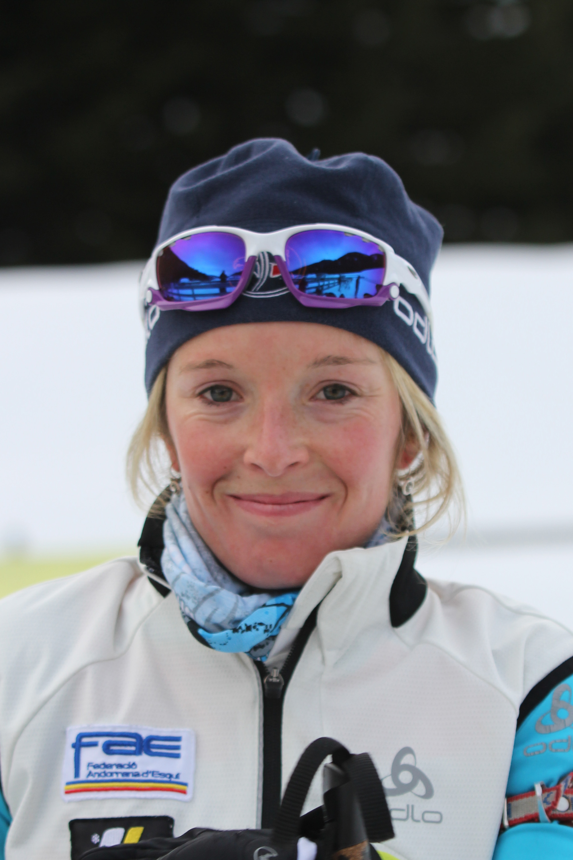 Laure Soulie at IBU-Cup 2010 in Obertilliach